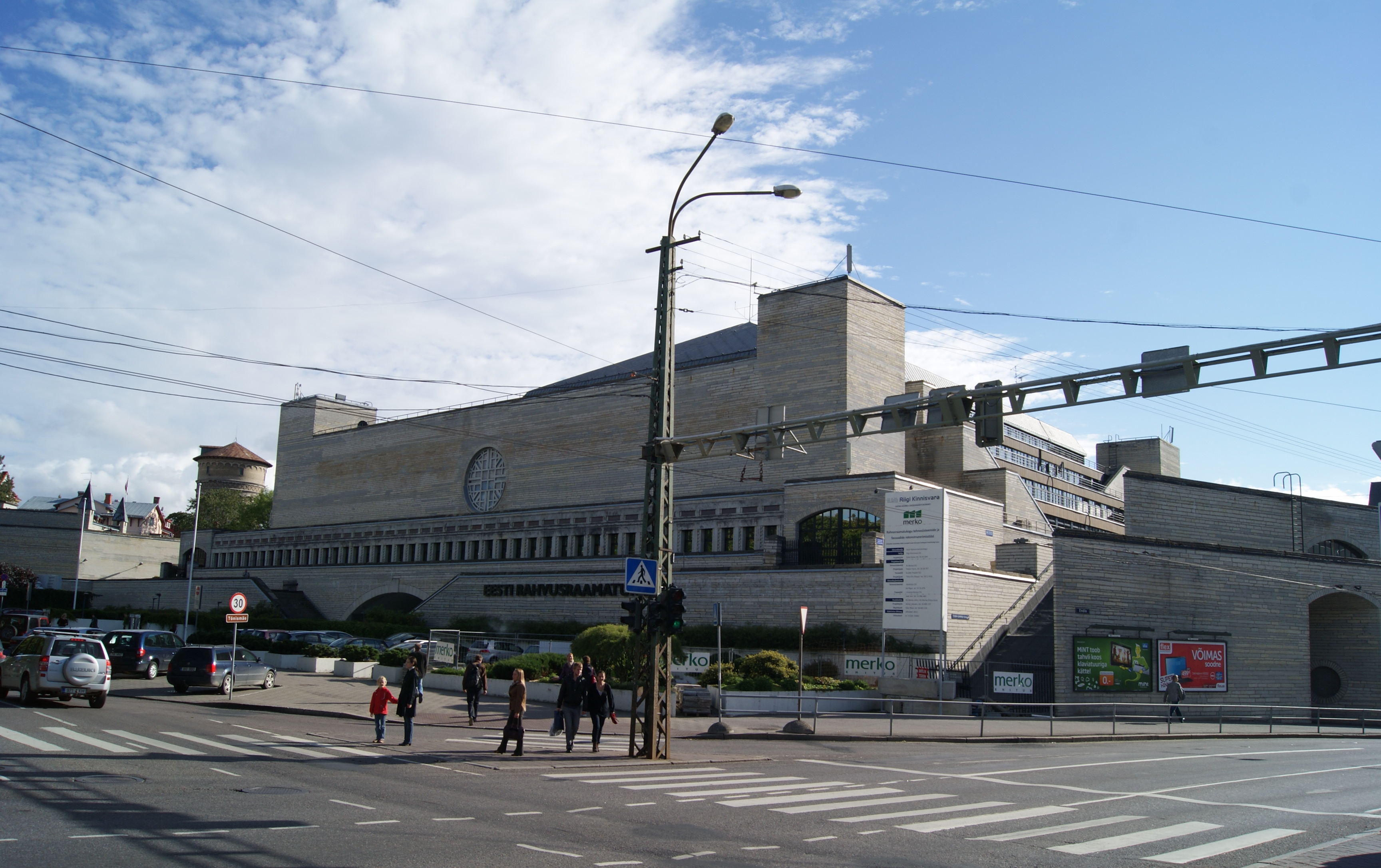 Soviet building of the National Librairy in Tallinn